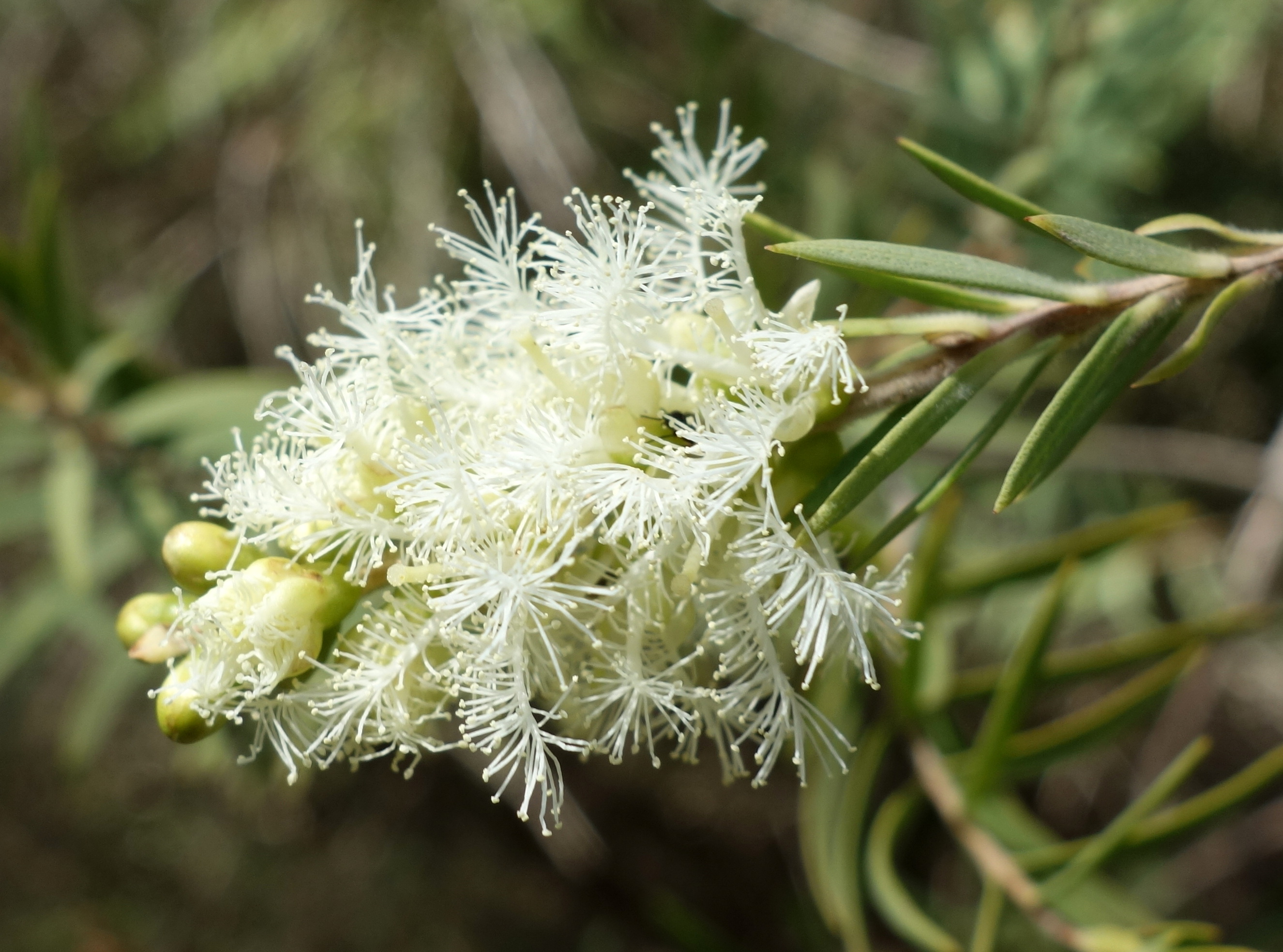 Botanical specimen in Leaning Pine Arboretum, California Polytechnic State University, San Luis Obispo, California, USA.